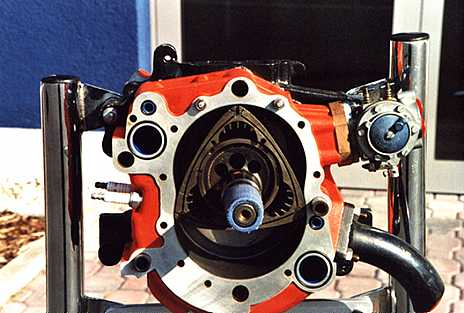 Diamond Engines Wankel Rotary Engine, Cover removed